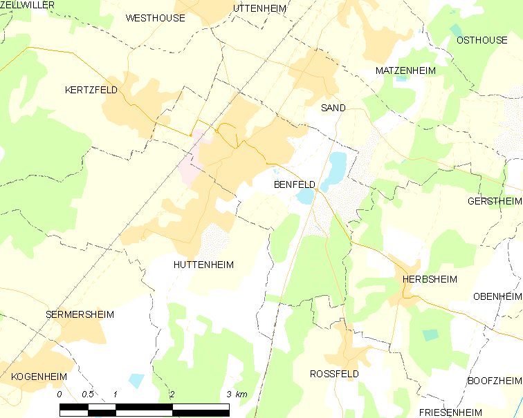 Map of French municipality